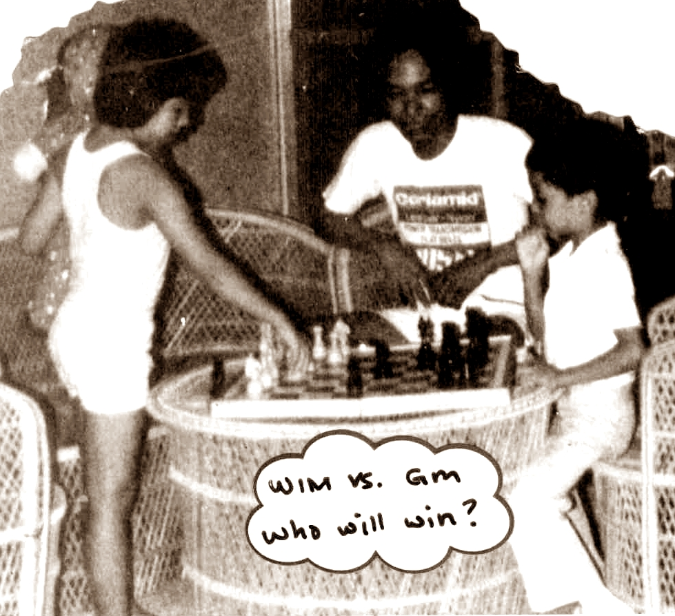 WIM mariano V.S. GM mariano